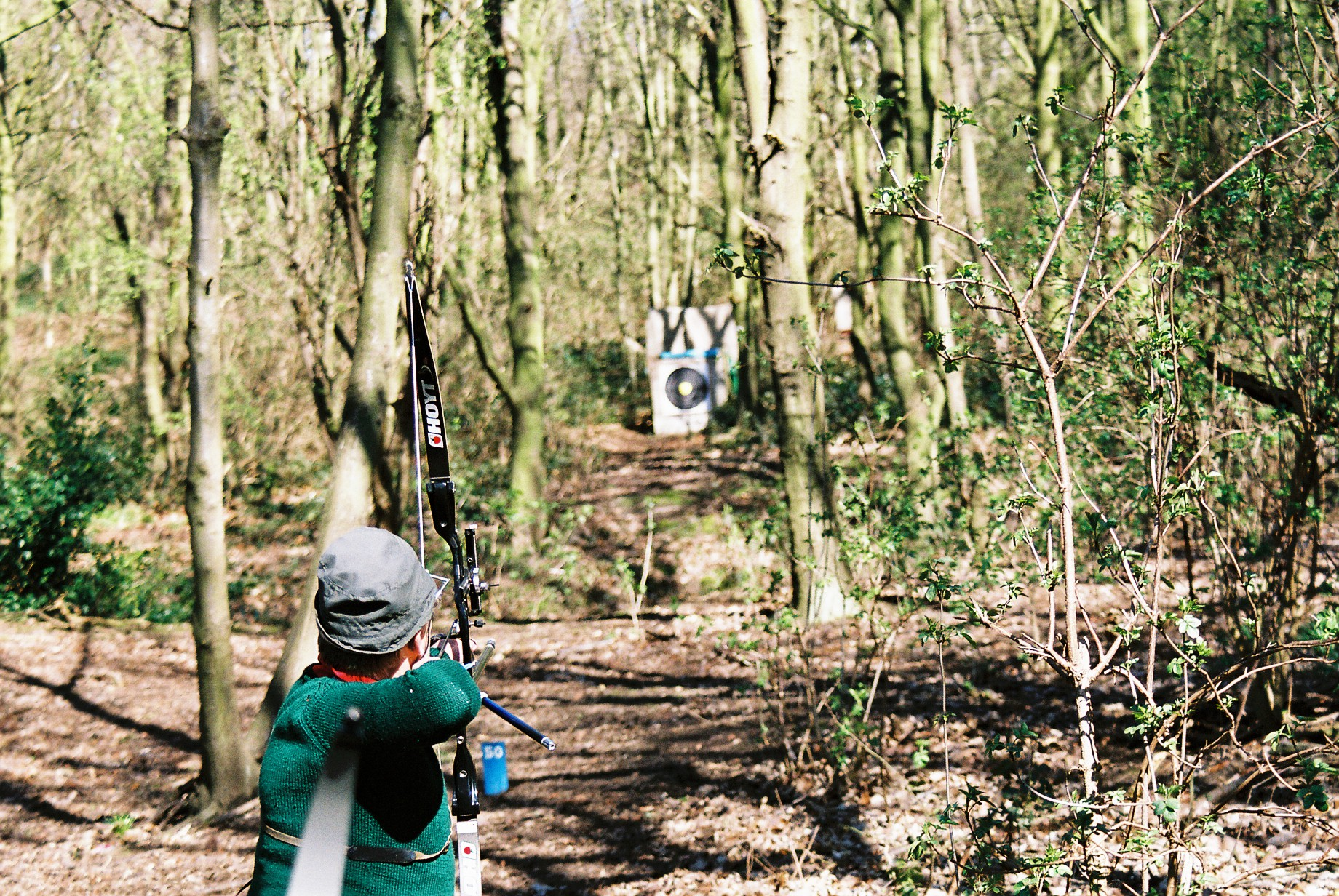 Field archer using a freestyle recurve bow. Taken at the Yorkshire Field Archery Championships at Dearne Valley, Doncaster, UK.